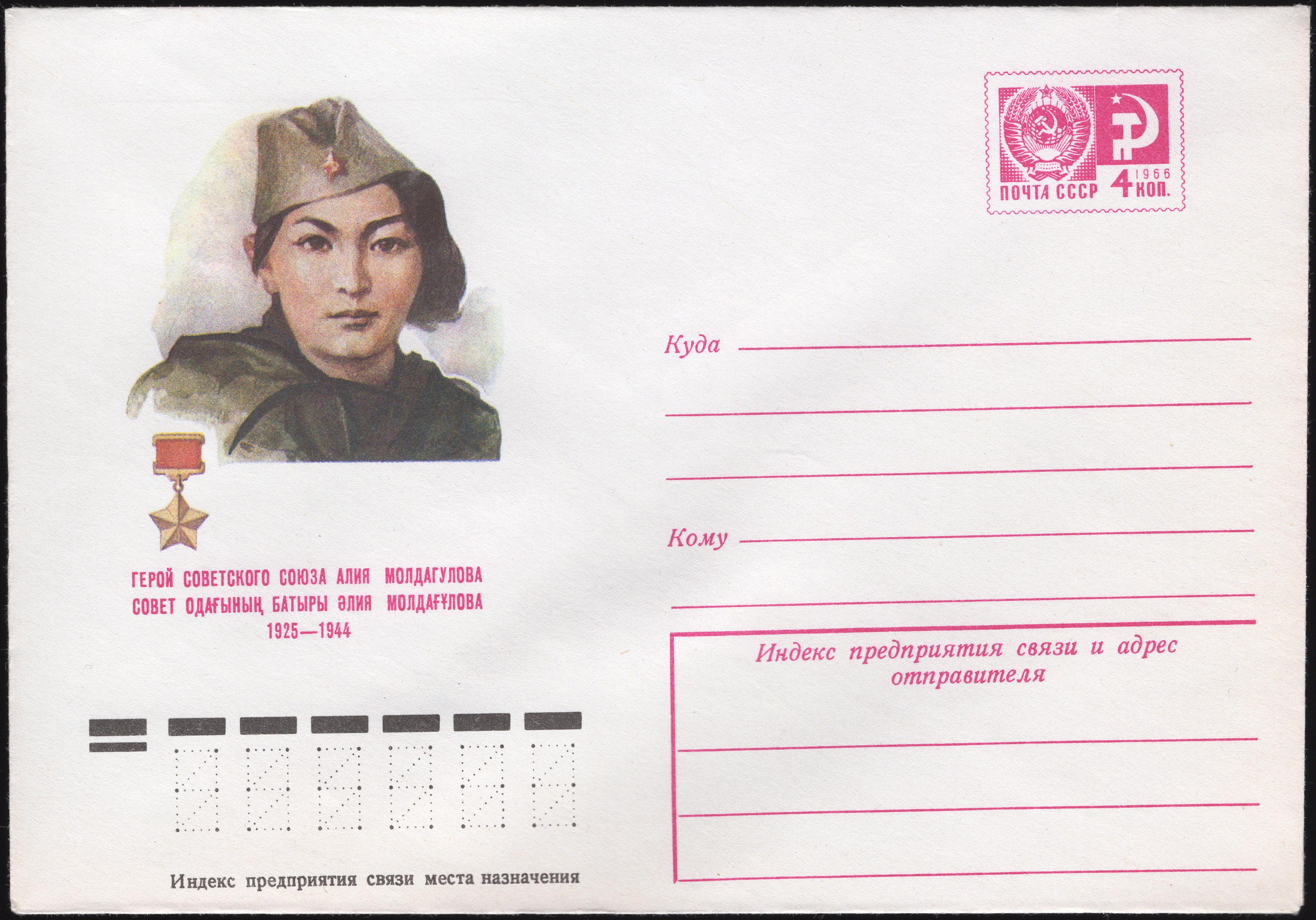 Hero of the Soviet Union Aliya Moldagulova. 1925-1944. Series: Heroes of the Soviet Union. Artist Aleksey Sokolov.